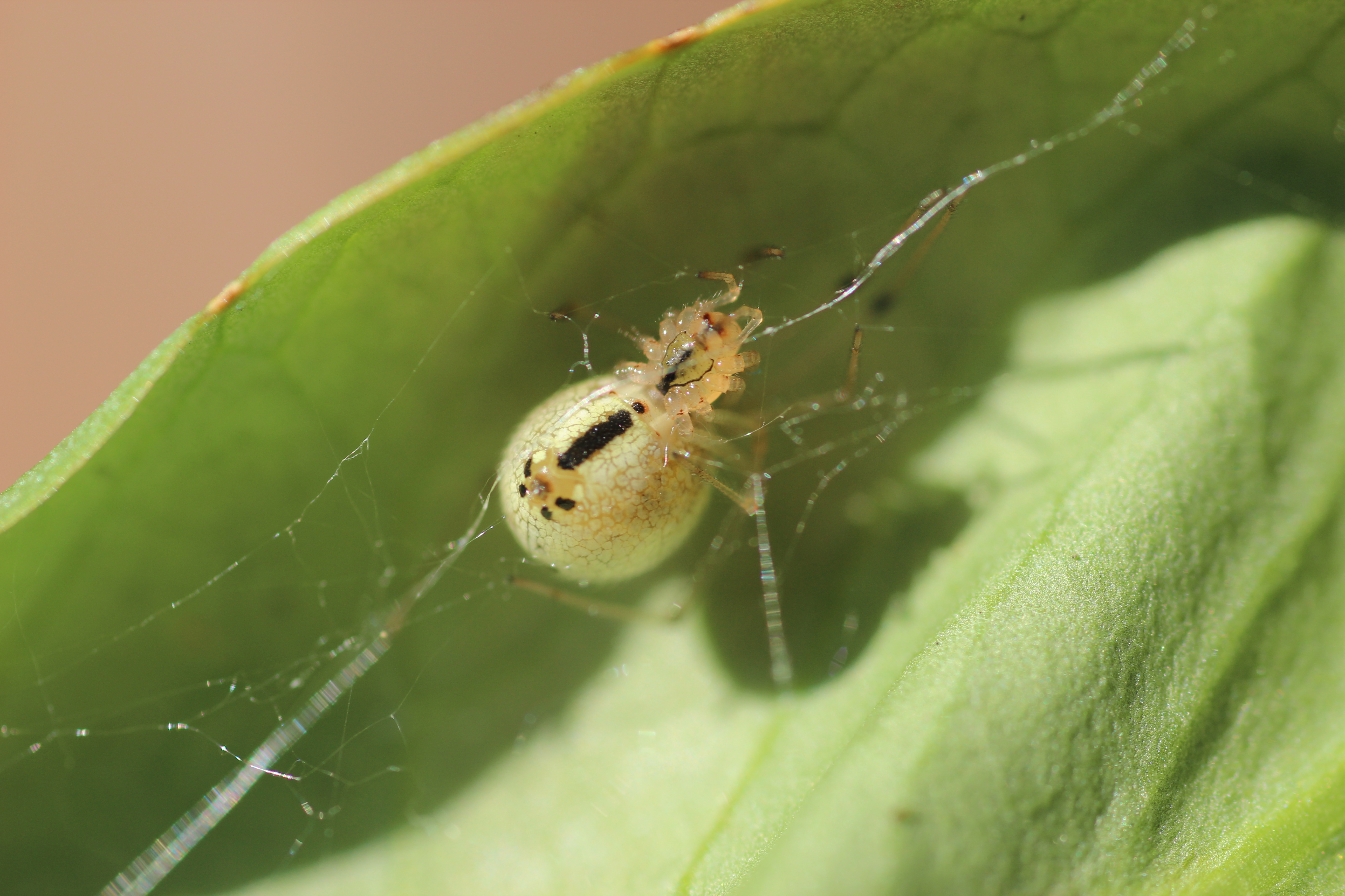 Enoplognatha ovata or Enoplognatha latimana while spinning a thread.jpg